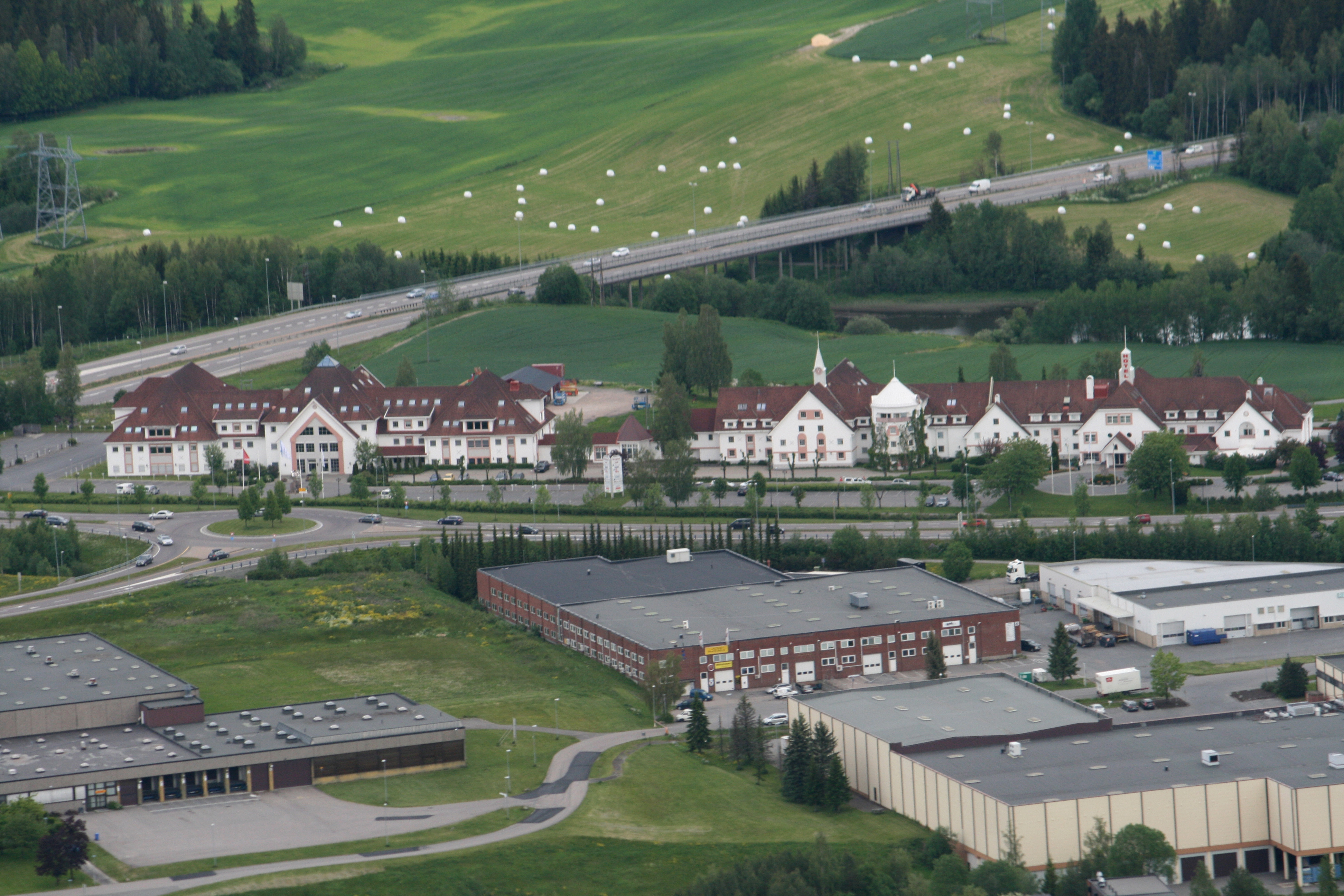 Aerial photograph from June 14th, 2015. Quality Hotel Olavsgaard at Hvam north of Oslo. Architect: Lorentz Gedde-Dahl